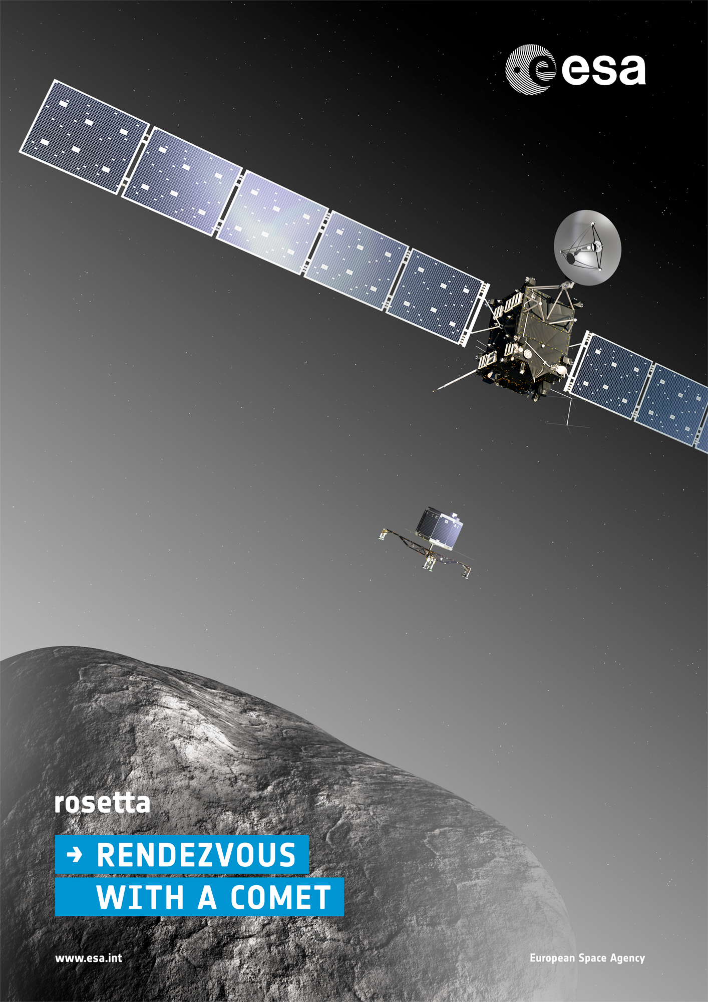 Rosetta mission poster showing a artist's view of the deployment of the Philae lander to comet 67P/Churyumov–Gerasimenko.